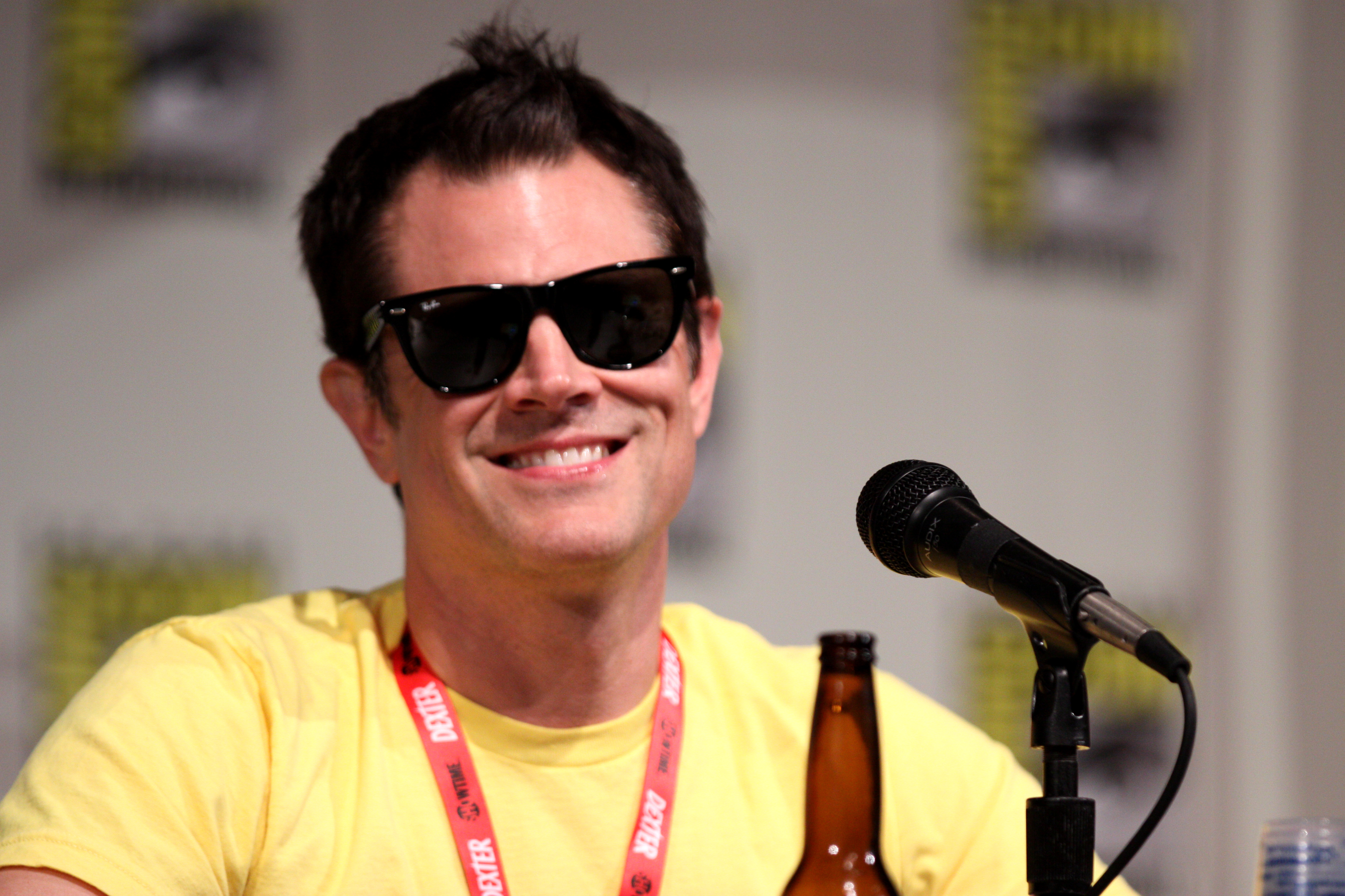 Johnny Knoxville at the 2011 San Diego Comic-Con International in San Diego, California.